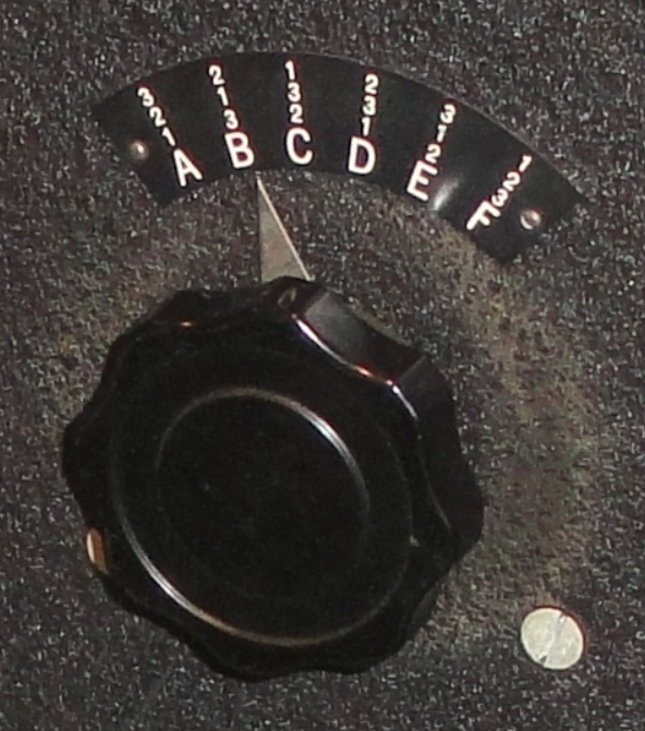 Stepping order selector switch on U.S. Army improved PURPLE analog. The six-position switch is set to position "B 312" which indicates that stepping switch 3 is the fast switch, 1 is medium and 2 is slow. From a unit on display at the National Cryptologic Museum.